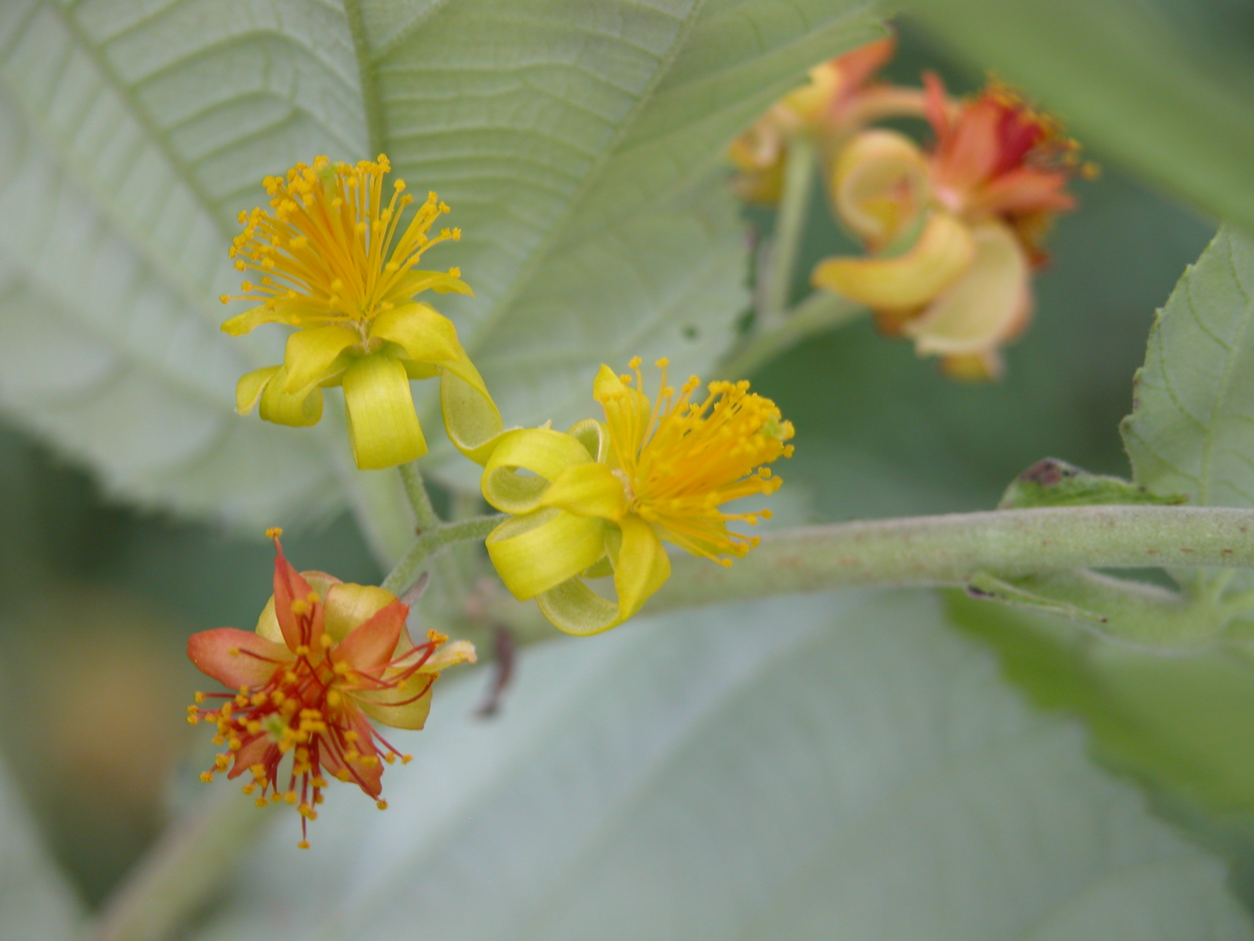 The Phalsa tree (Grewia asiatica / Tiliaceae) is located in the Ghosh Grove, Rockledge, Florida.